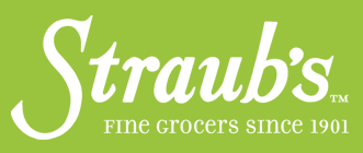 Logo for Straub's